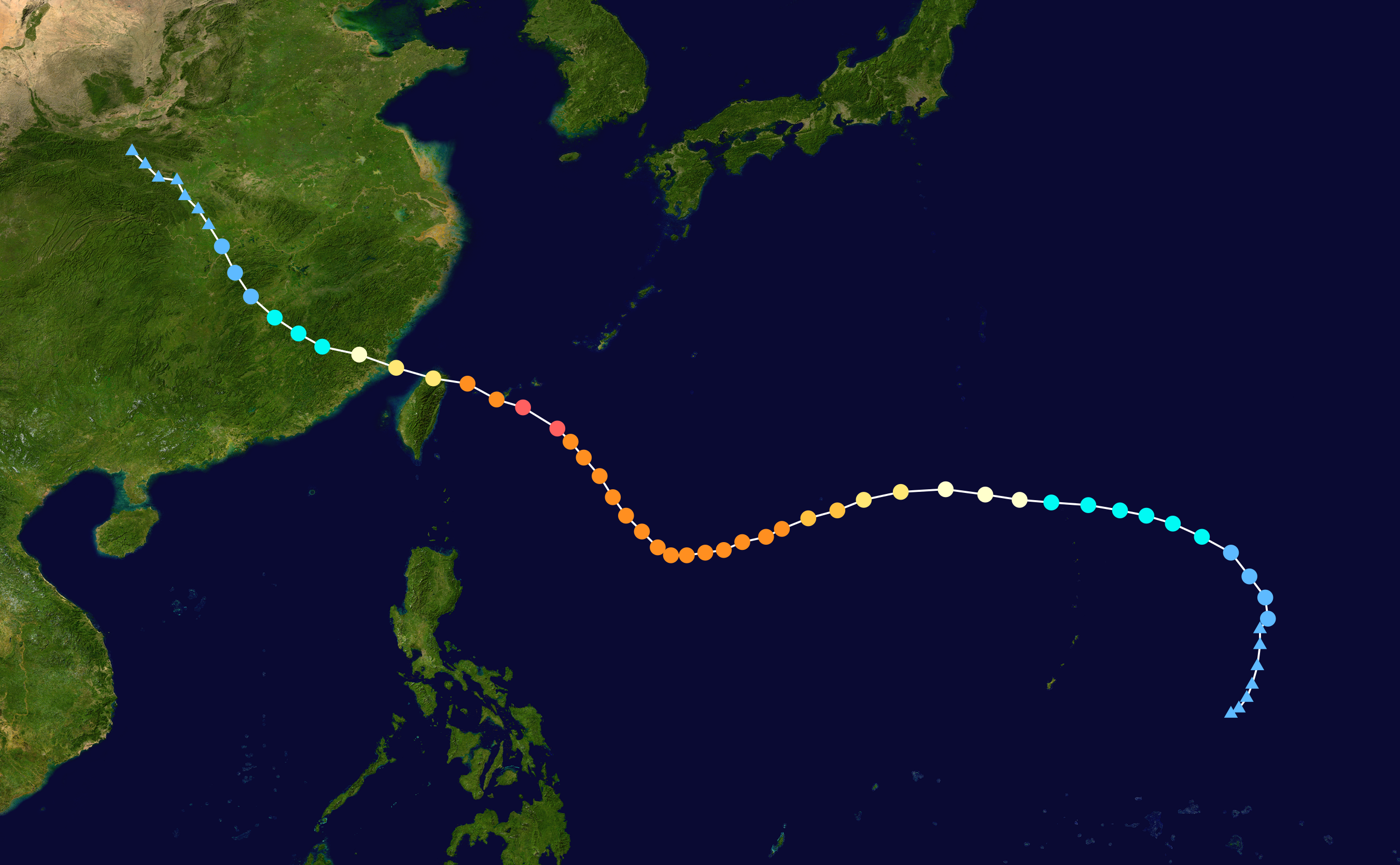 Typhoon Herb (1996) track. Uses the color scheme from the Saffir-Simpson Hurricane Scale.